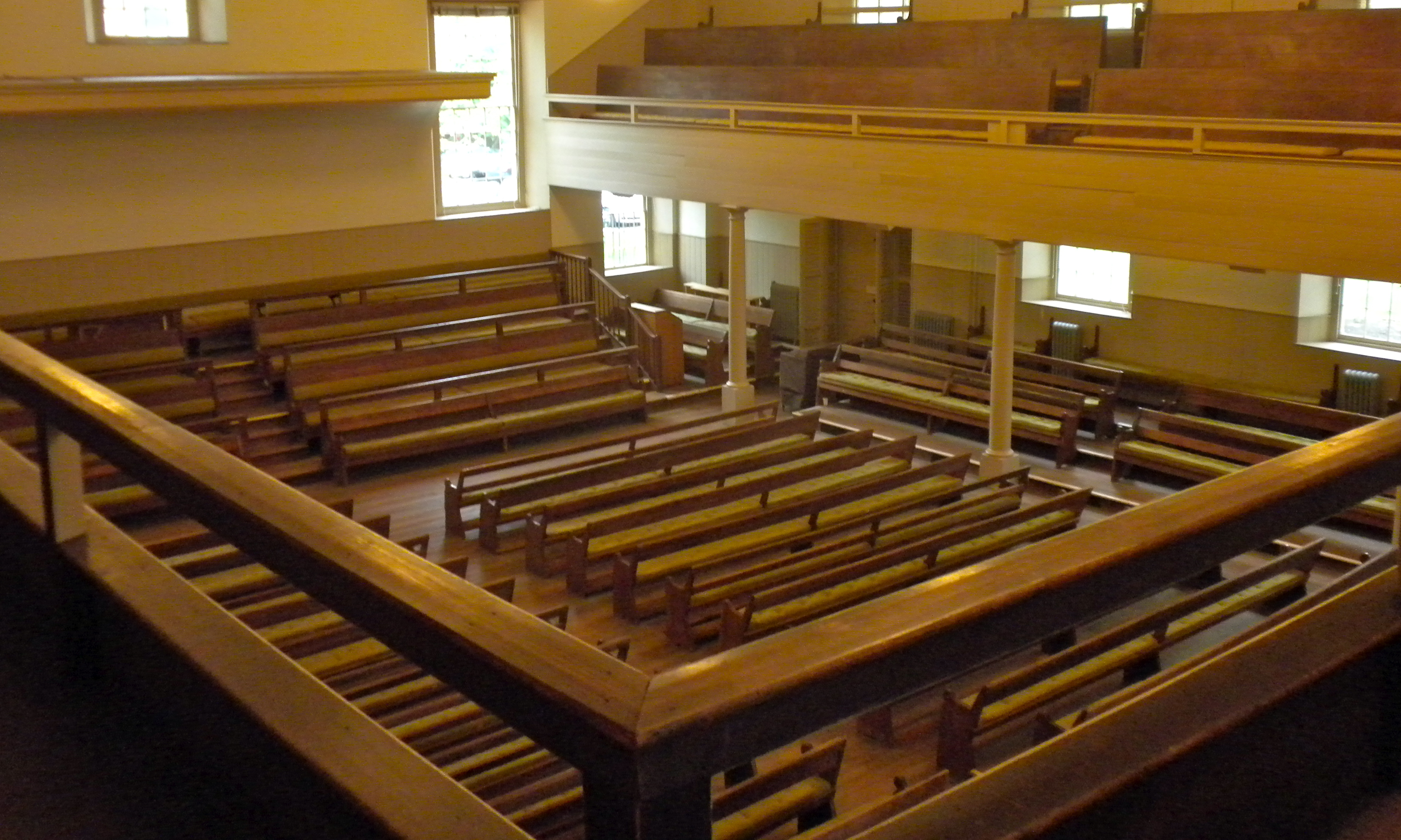 Interior of the Arch Street Meetinghouse, on the NRHP. Location: 320 Arch Street, Philadelphia, Pennsylvania Built 1804 Architect: Owen Biddle (1774–1806) Home of the Philadelphia Yearly Meeting.